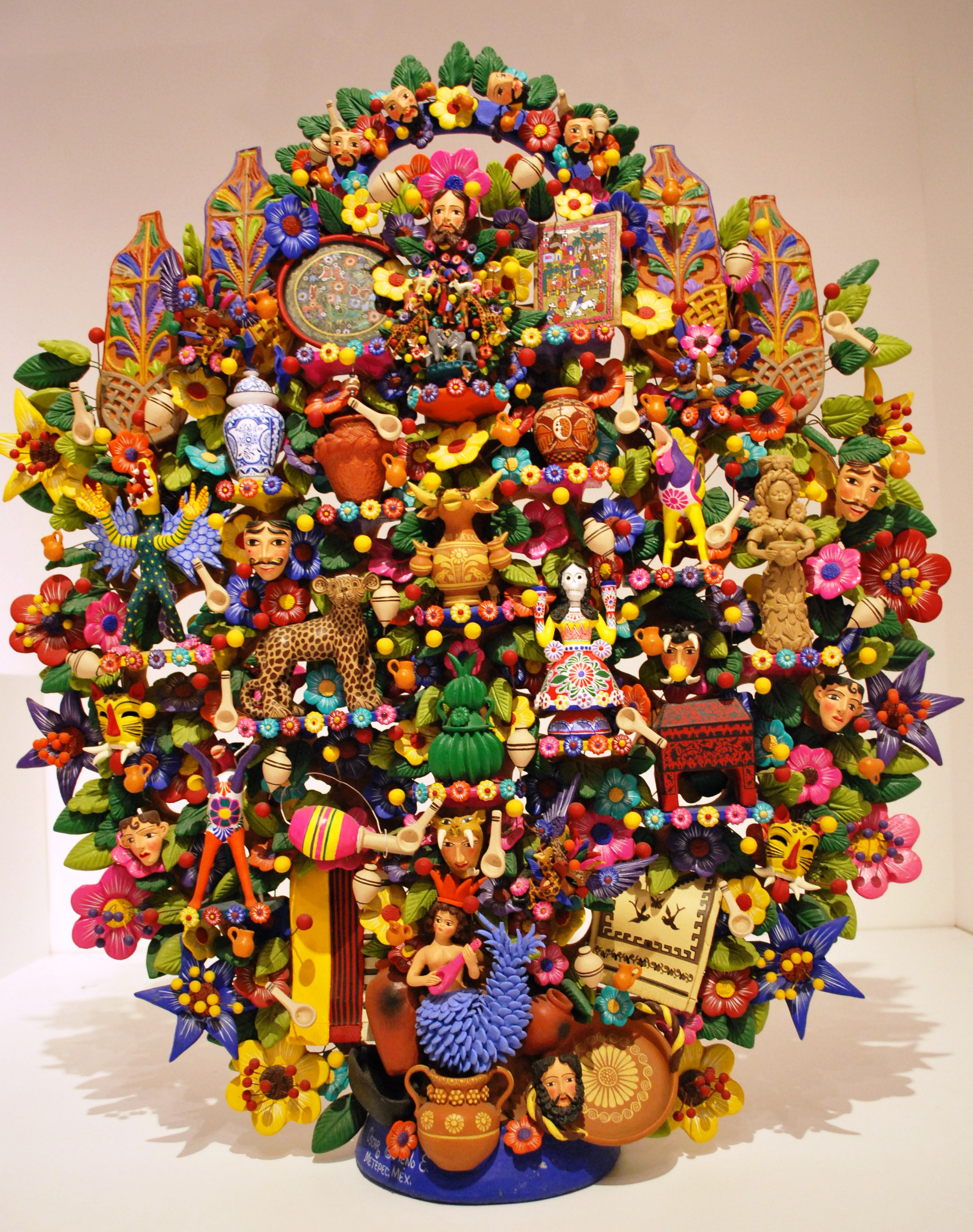 Tree of Life with theme of handcrafts by Oscar Soteno on display at the Museum of Artes Populares in Mexico City